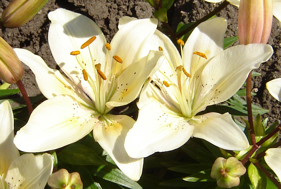 Lilium University of Saskatchewan University of Saskatchewan Centennial Lily by plant breeder Donna Hay. University of Saskatchewan Centennial Lily